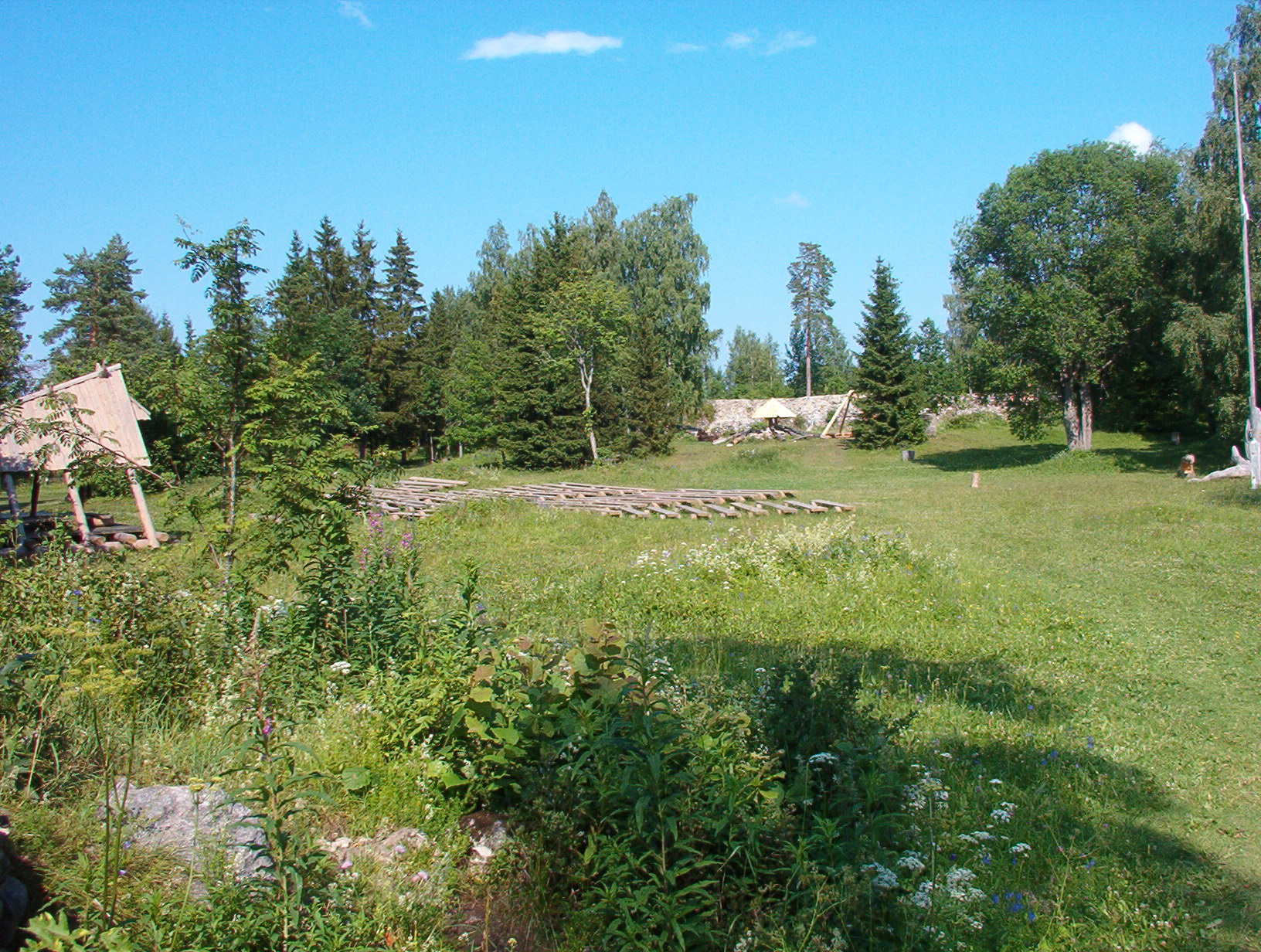 Varbola Stronghold